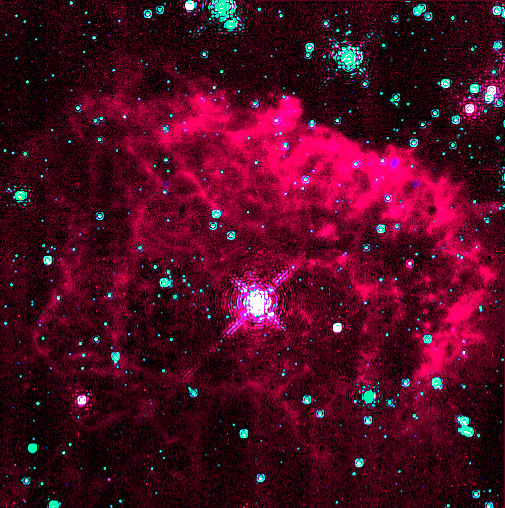 One of the intrinsically brightest stars in our galaxy appears as the bright white dot in the center of this image taken with NASA's Hubble Space Telescope. Hubble's Near Infrared Camera and Multi-Object Spectrometer (NICMOS) was needed to take the picture, because the star is hidden at the galactic center, behind obscuring dust. NICMOS' infrared vision penetrated the dust to reveal the star, which is glowing with the radiance of 10 million suns. The image also shows one of the most massive stellar eruptions ever seen in space. The radiant star has enough raw power to blow off two expanding shells (magenta) of gas equal to the mass of several of our suns. The largest shell is so big (4 light-years) it would stretch nearly all the way from our Sun to the next nearest star. The outbursts seen by Hubble are estimated to be only 4,000 and 6,000 years old, respectively. Despite such a tremendous mass loss, astronomers estimate the extraordinary star may presently be 100 times more massive than our Sun, and may have started with as much as 200 solar masses of material, but it is violently shedding much of its mass. The star is 25,000 light-years away in the direction of the constellation Sagittarius. Despite its great distance, the star would be visible to the naked eye as a modest 4th magnitude object if it were not for the dust between it and the Earth. This false-colored image is a composite of two separately filtered images taken with the NICMOS, on September 13,1997. The field of view is 4.8 light-years across, at the star's distance of 25,000 light-years. Resolution is 0.075 arc seconds per pixel (picture element).